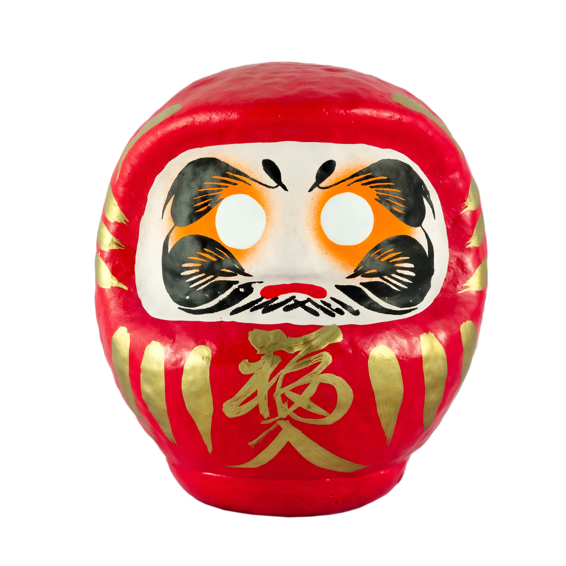 Daruma doll, cut out, facing straight. The characters on its chest read 福入 (fuku-iri), which translates as "let luck in" (thanks to Curly Turkey for the translation).